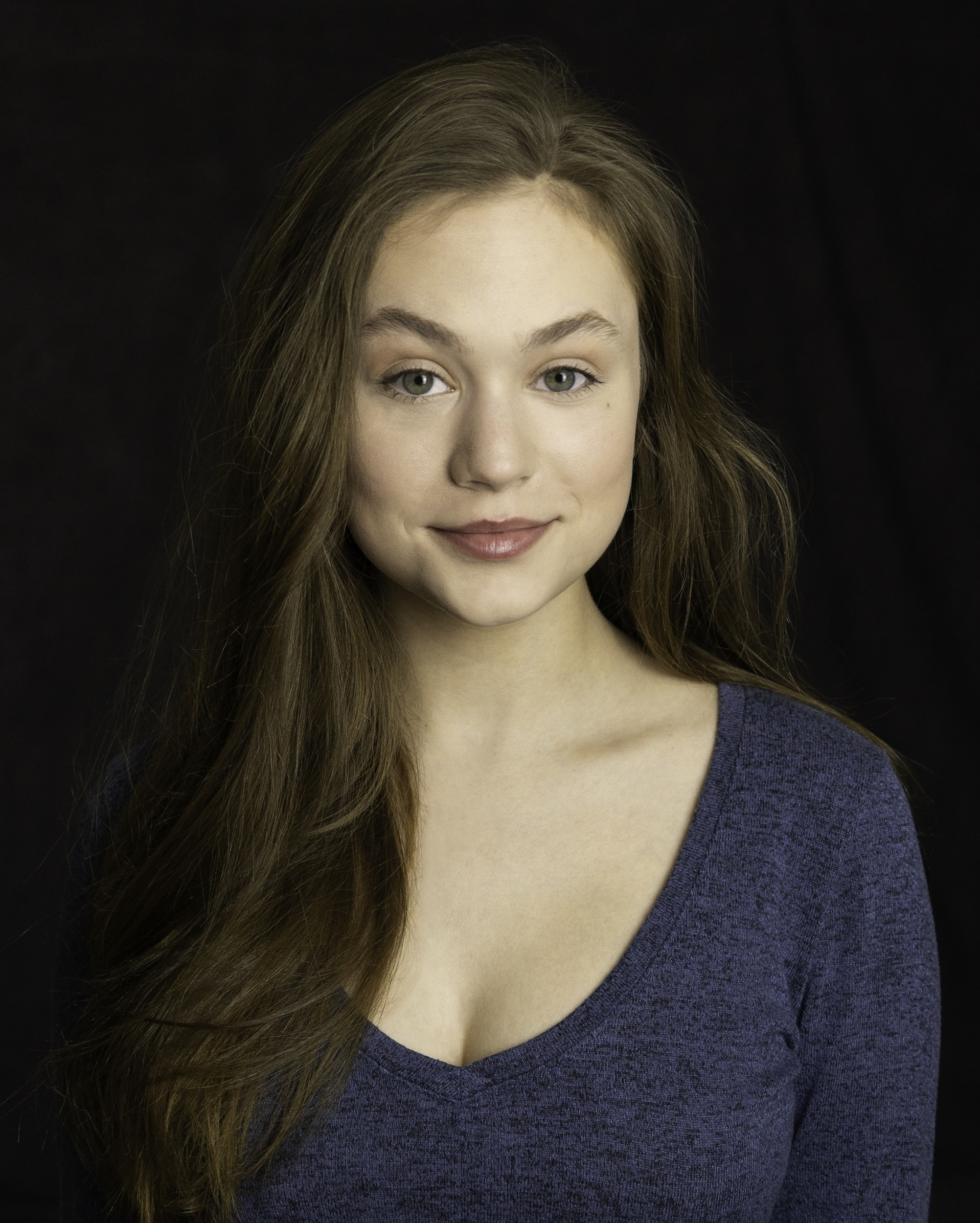 Ella Ballentine Publicity Photo 2019